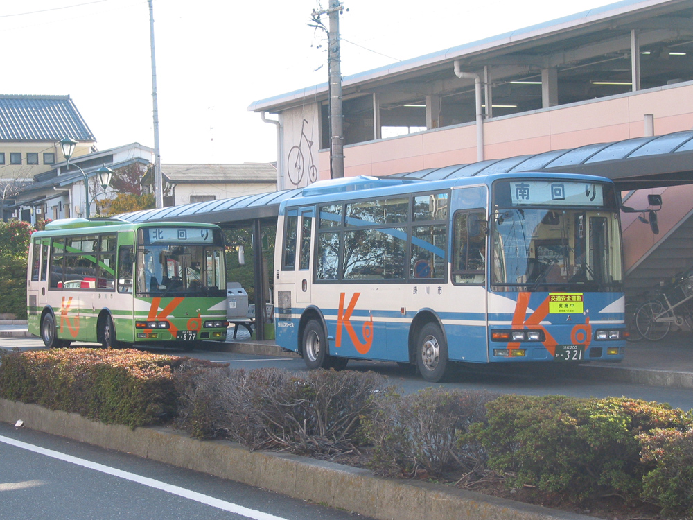 The Community Bus of Kakegawa-city, The Kakegawa Slow-Life Bus Model:Mitsubishi Motors Aero Midi ME 掛川駅北口バス停（北1, 南1）に停車中の掛川市市街地循環バス スローライフバス 画像左：北回り、画像右：南回り 車種：三菱ふそう Aero Midi ME 静岡県掛川市南西郷で撮影